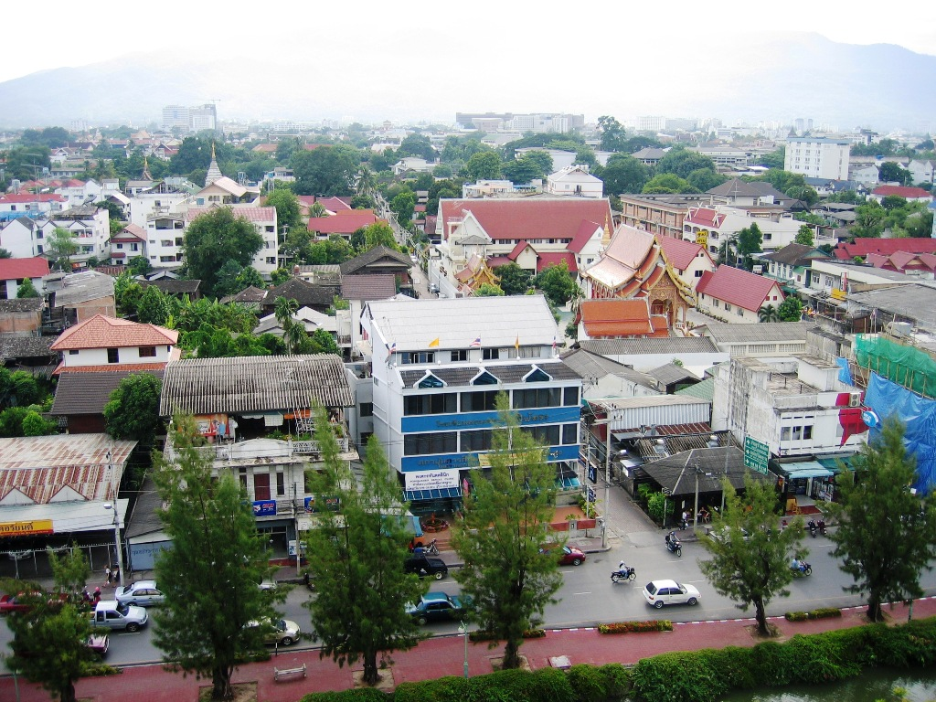 Chiang Mai Old Town, Thailand.